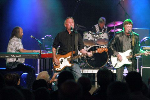 A photo of the Kast Off Kinks. From left: John Gosling, John Dalton, Mick Avory, Dave Clark.